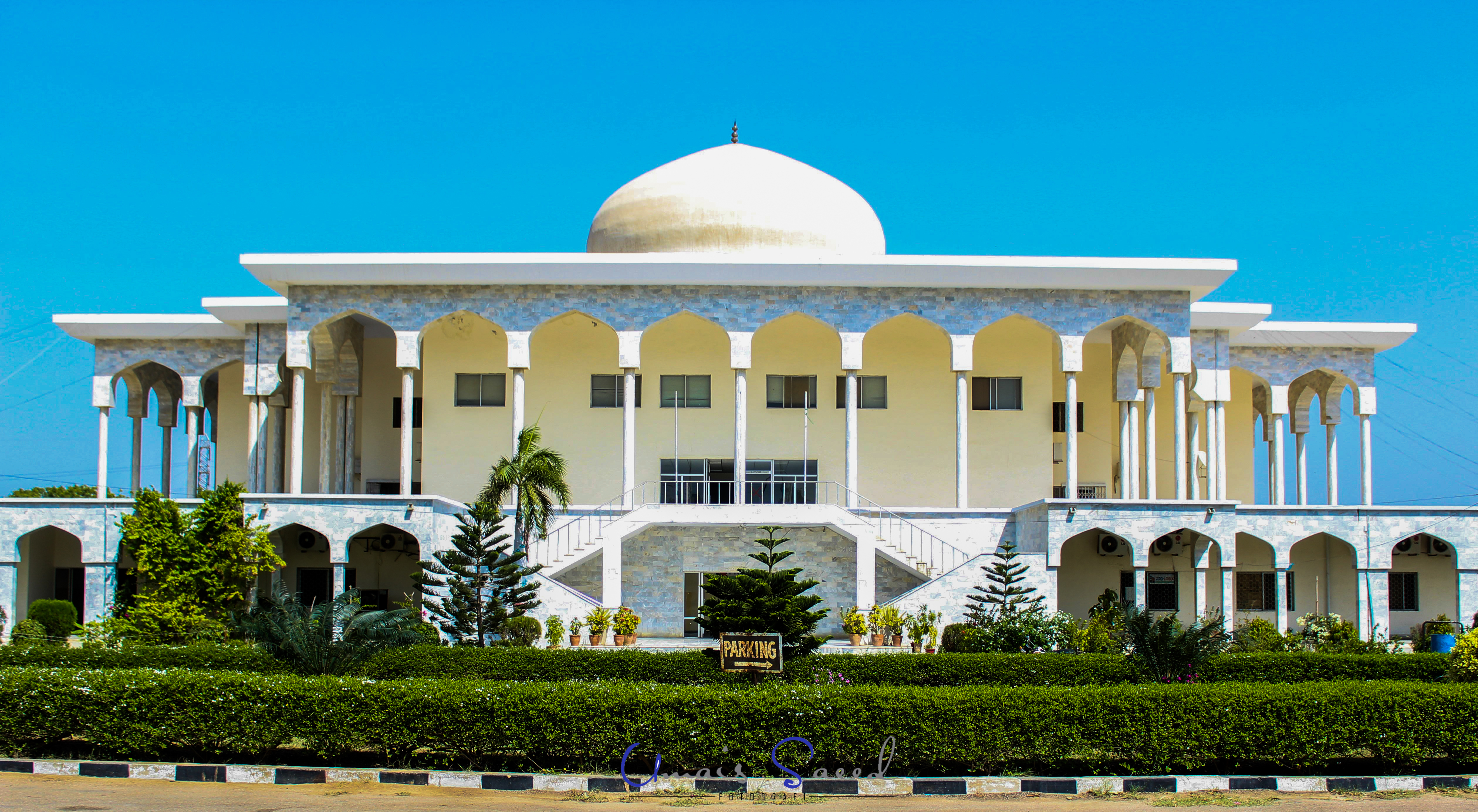 Its my University where im studying